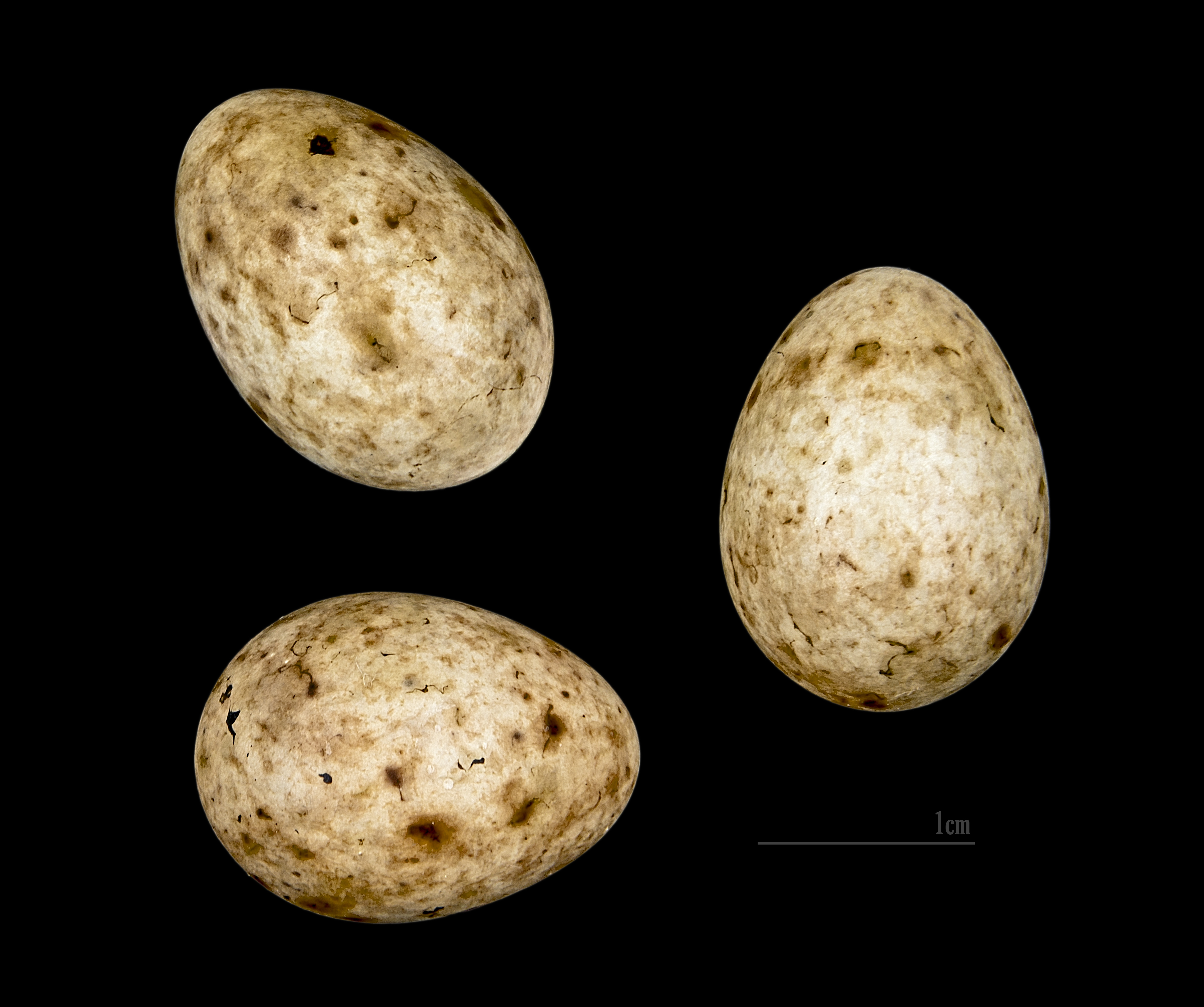 Egg of Eurasian Blackcap. Collection of Jacques Perrin de Brichambaut.